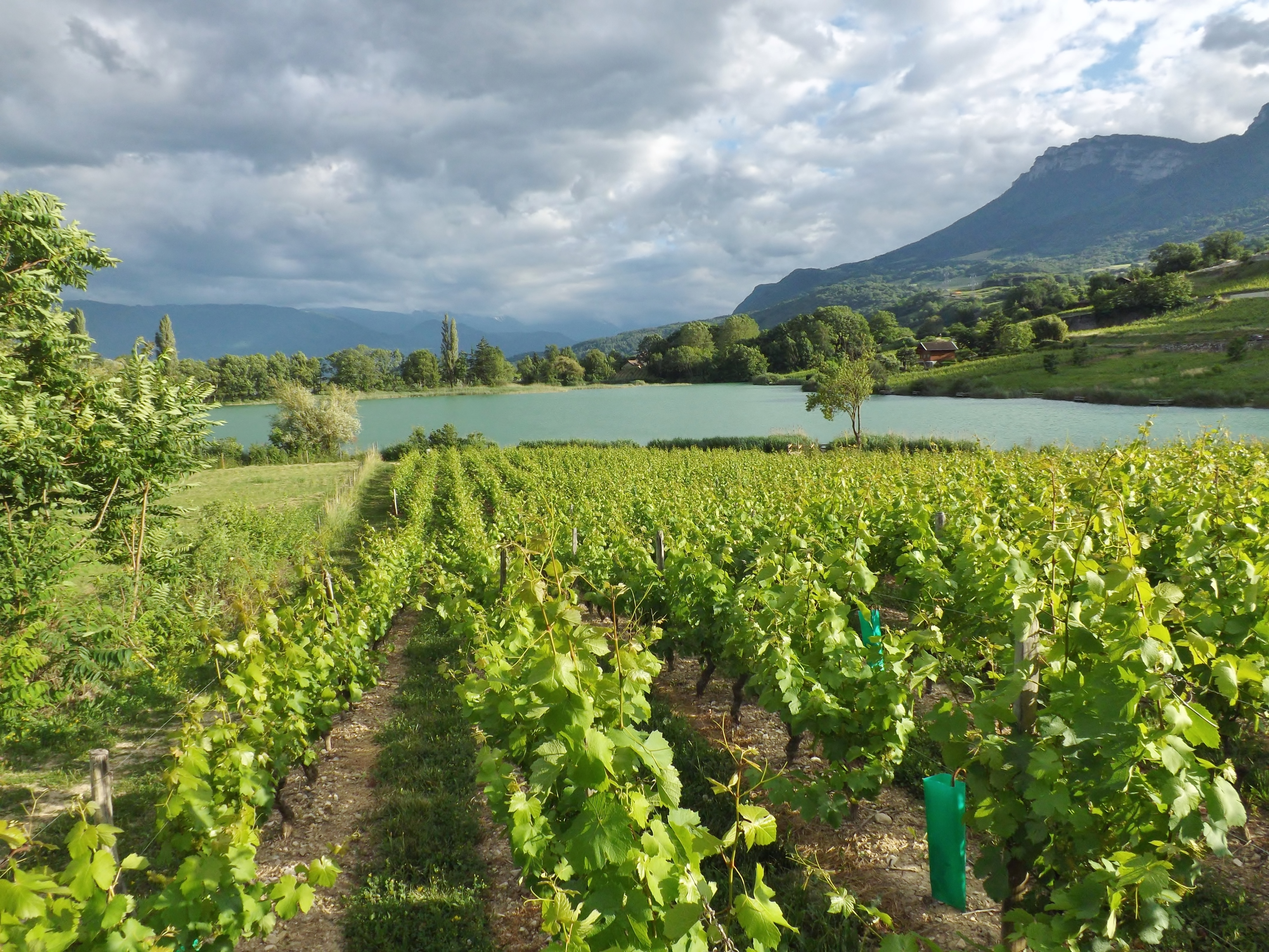 Sight in the sunset, of the lac Saint-André lake and the vineyards of Les Marches near Chambéry in Savoie, France.